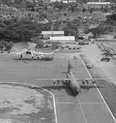 Contract helicopters are parked at the Dili airfield. Note the size of the Mi-26 heavy-lift helicopter in the center of the photo compared to the C-130 Hercules transport to its right.